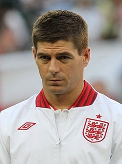 Steven Gerrard at the Euro 2012 match against France